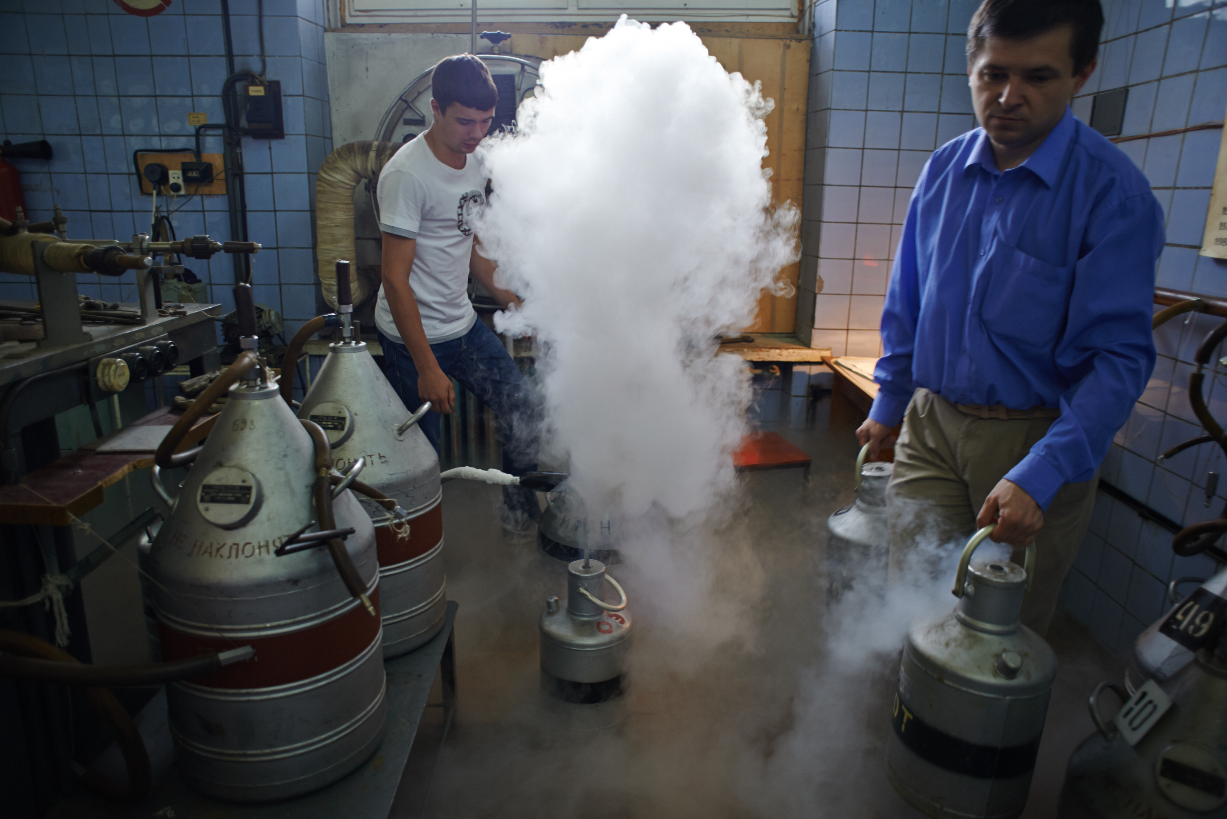 Students of academy of physics make liquid helium.